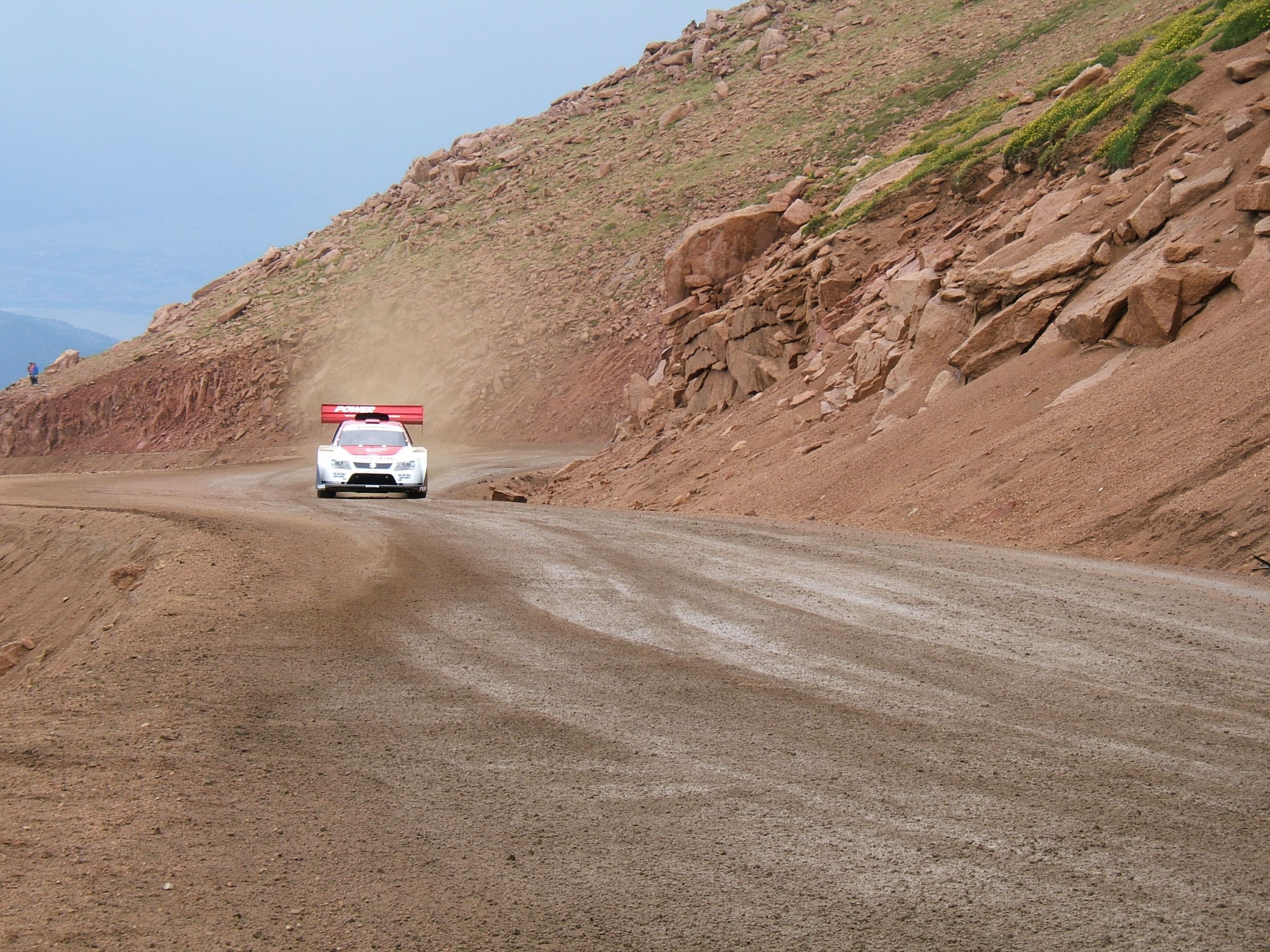 Image I shot at the 2006 Race to the Clouds of the Pike's Peak Suzuki Grand Vitara coming around a bend somewhere near Mile 12 on top of Pike's Peak.